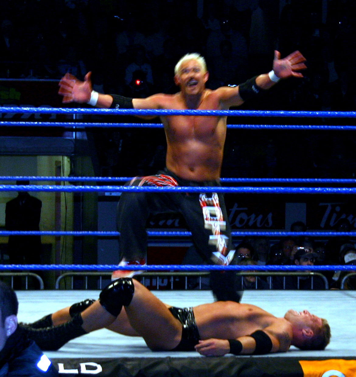 scotty 2 hotty about to drop the worm on mark jindrak